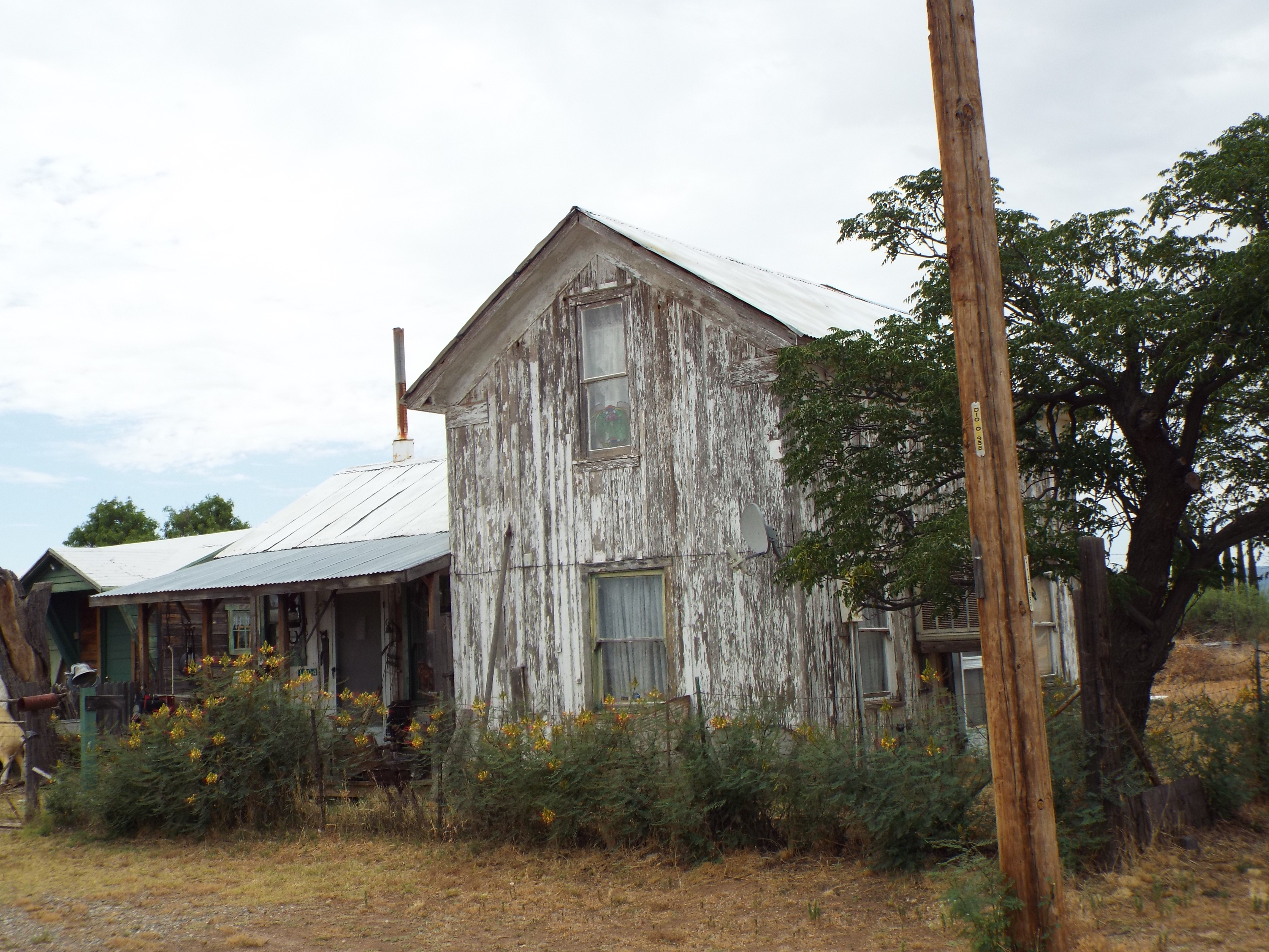 The original Cochise Southern Pacific Railroad Train Depot moved to a different location as it looked in 2019 in Cochise, Az